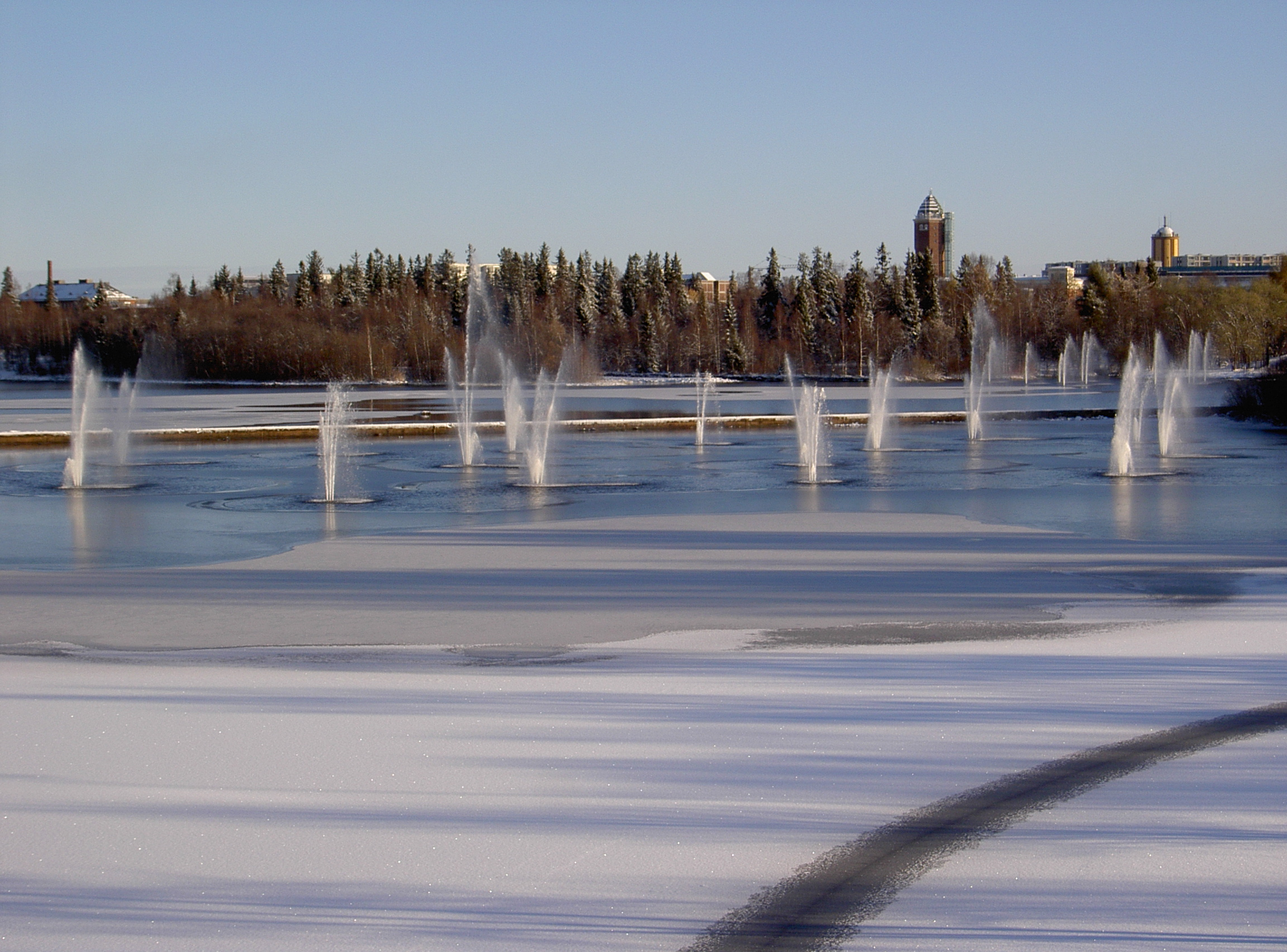 Fountains in Oulu, Finland